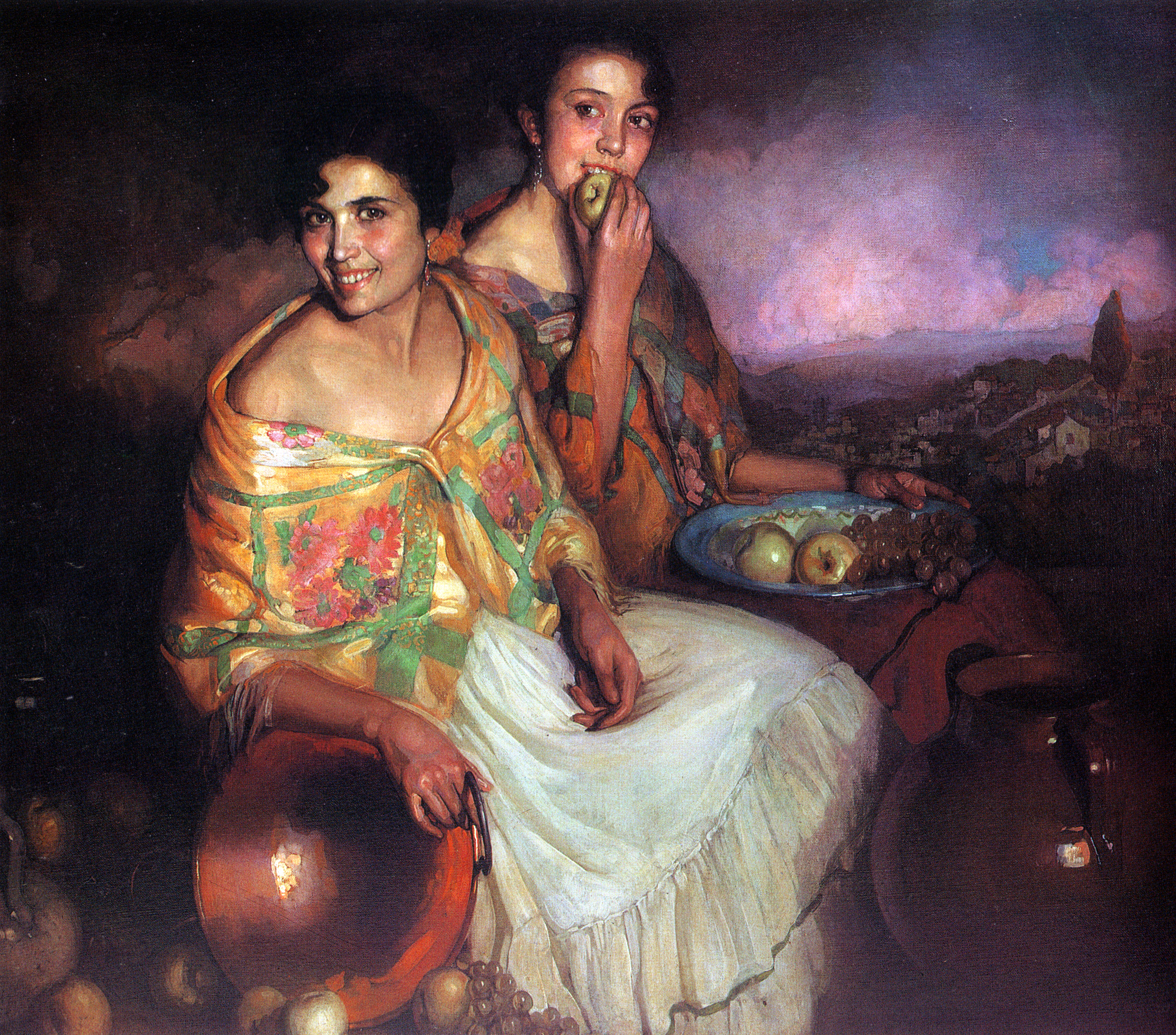 Portrait of Marta and Maria, both "gitanas"